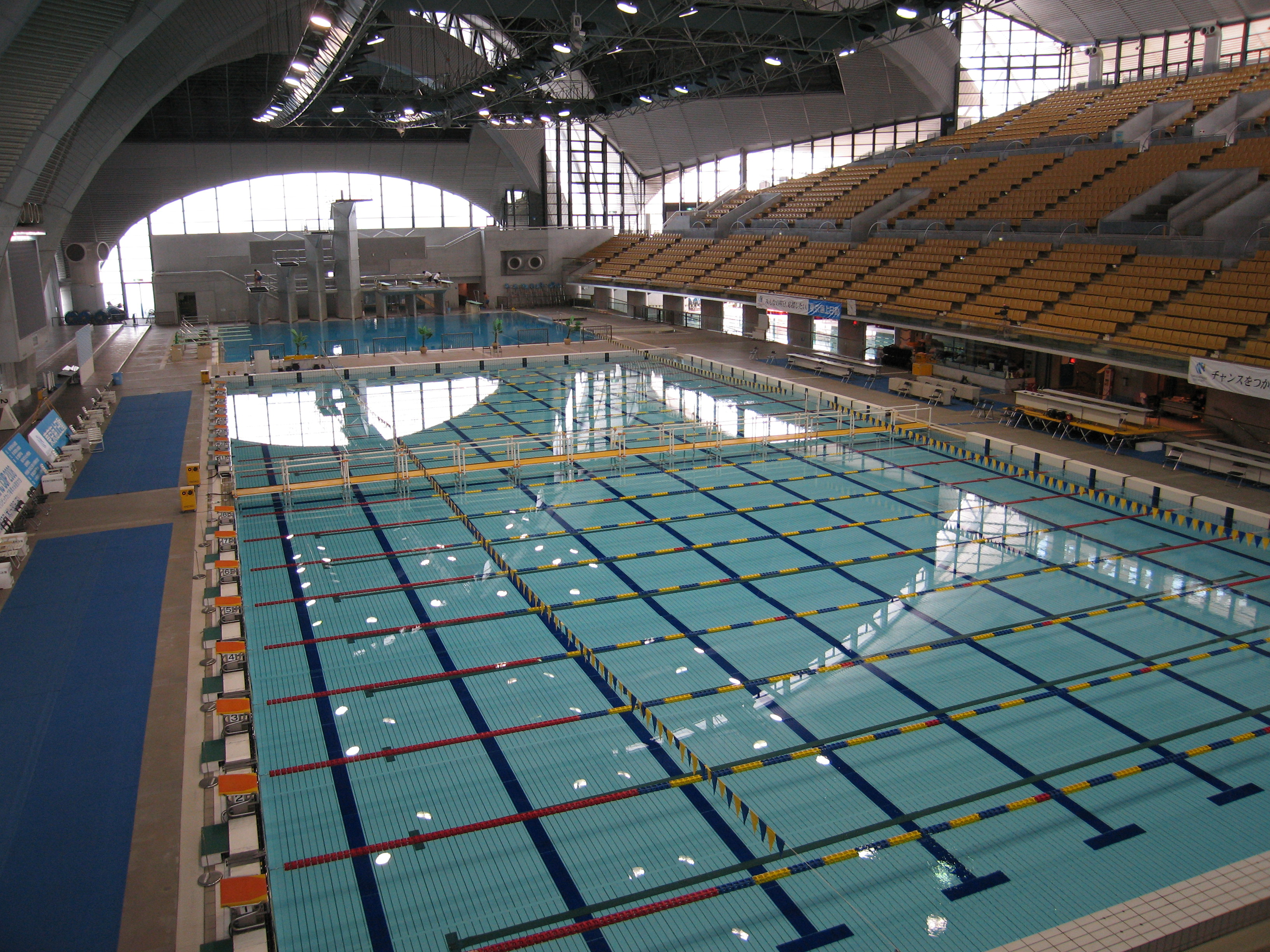 "TOKYO TATSUMI INTERNATIONAL SWIMMING CENTER" , Kōtō, Tokyo , Japan